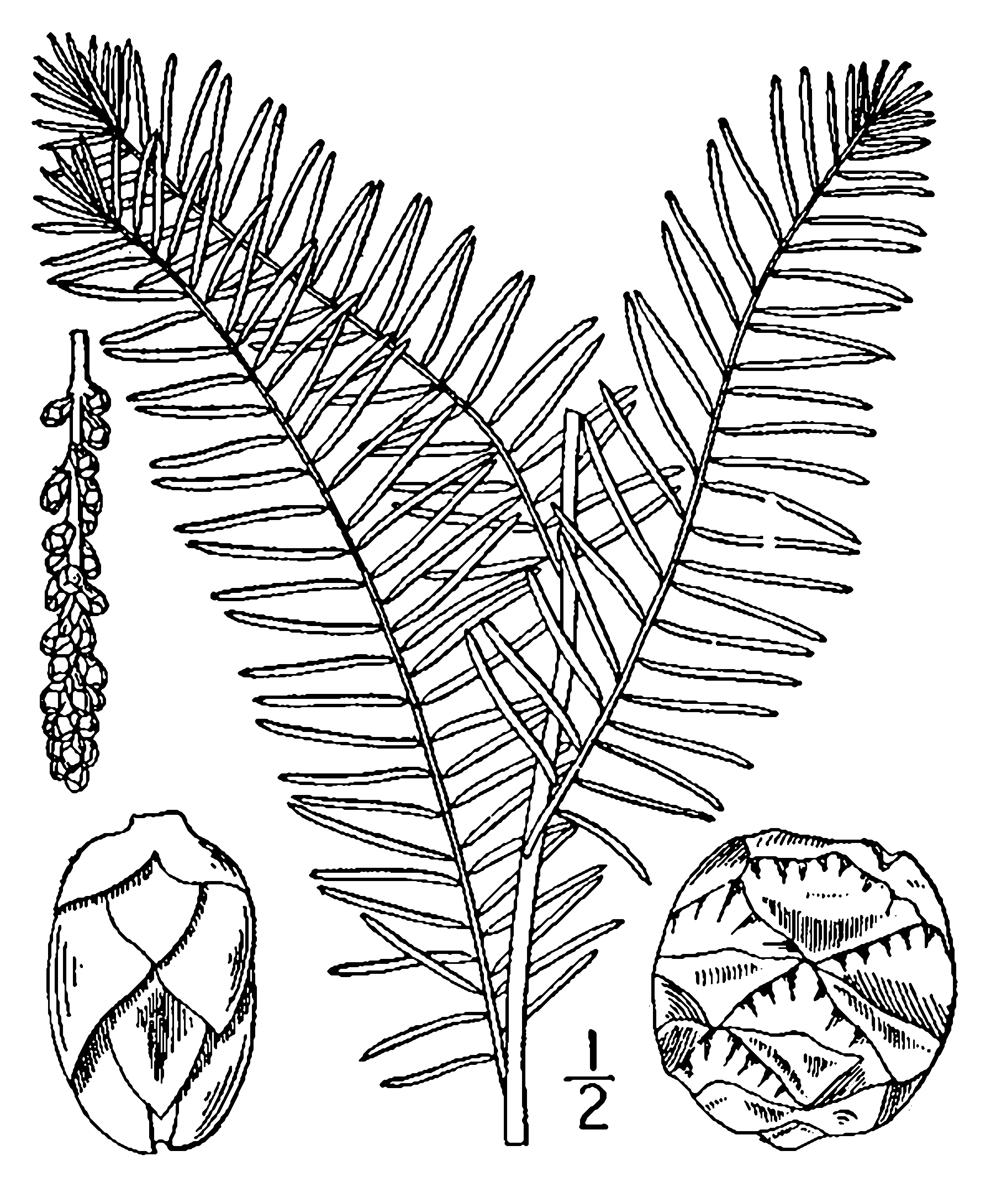 Bald Cypress. Line drawing.